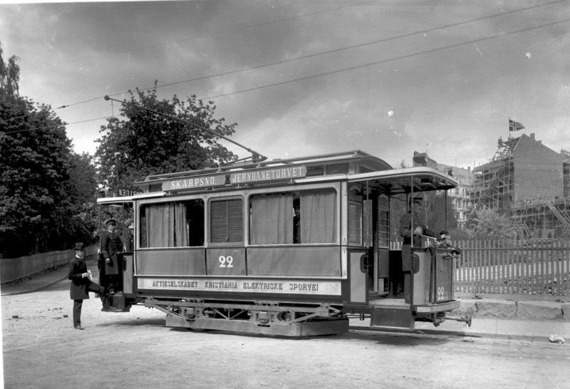 Kristiania Elektriske Sporvei Class A tram 22